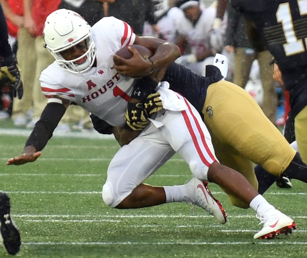 University of Houston quarterback Greg Ward Jr. is tackled during a game at Navy on October 8, 2016.